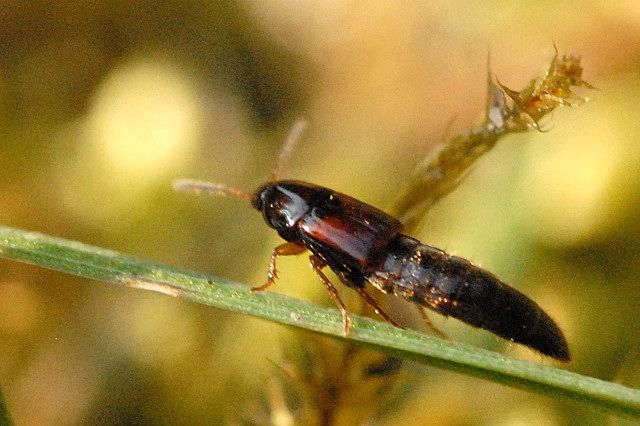 Mycetoporus longulus from Commanster, Belgian High Ardennes .